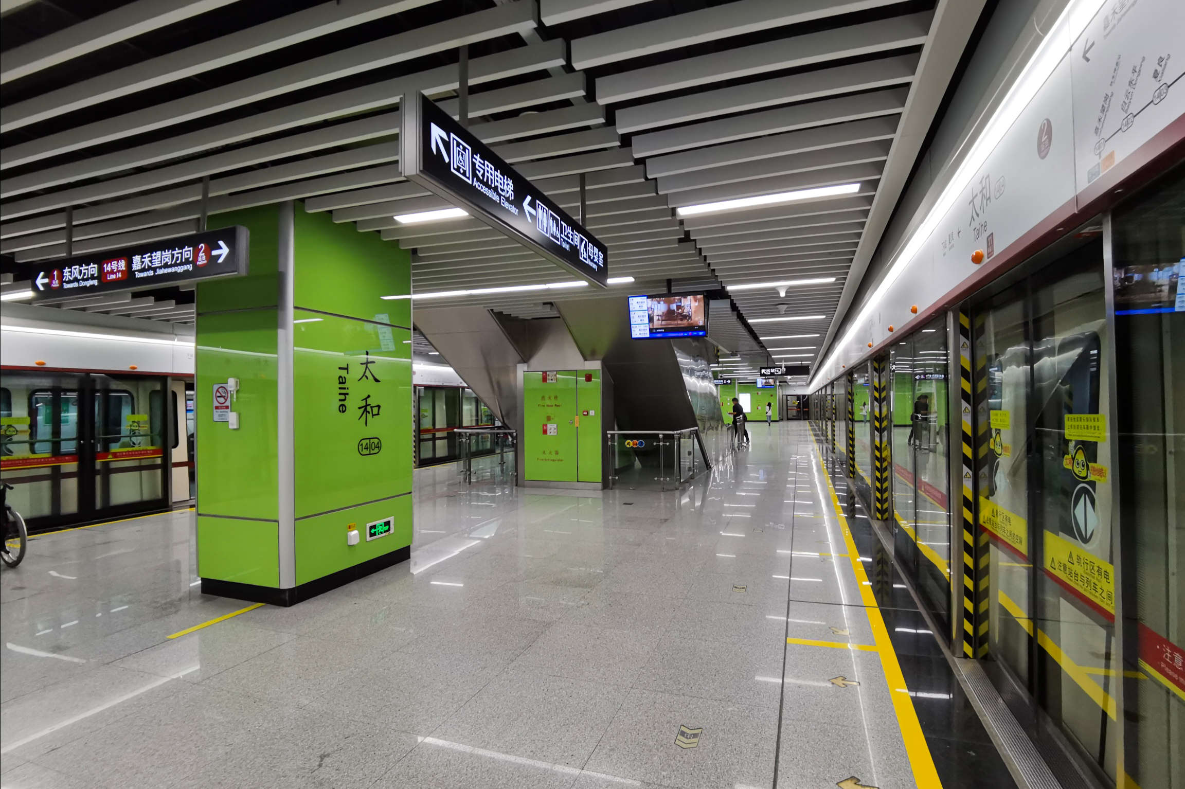 广州地铁太和站